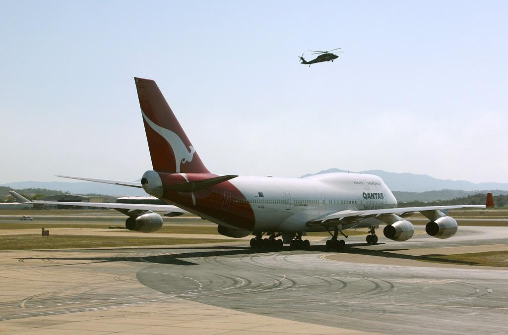 Qantas 747 in Townsville